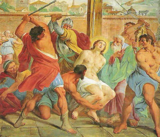 martyrdom Saint Sebastian. Pietro Paolo Vasta - Saint Sebastian Church - Acireale, Sicily.